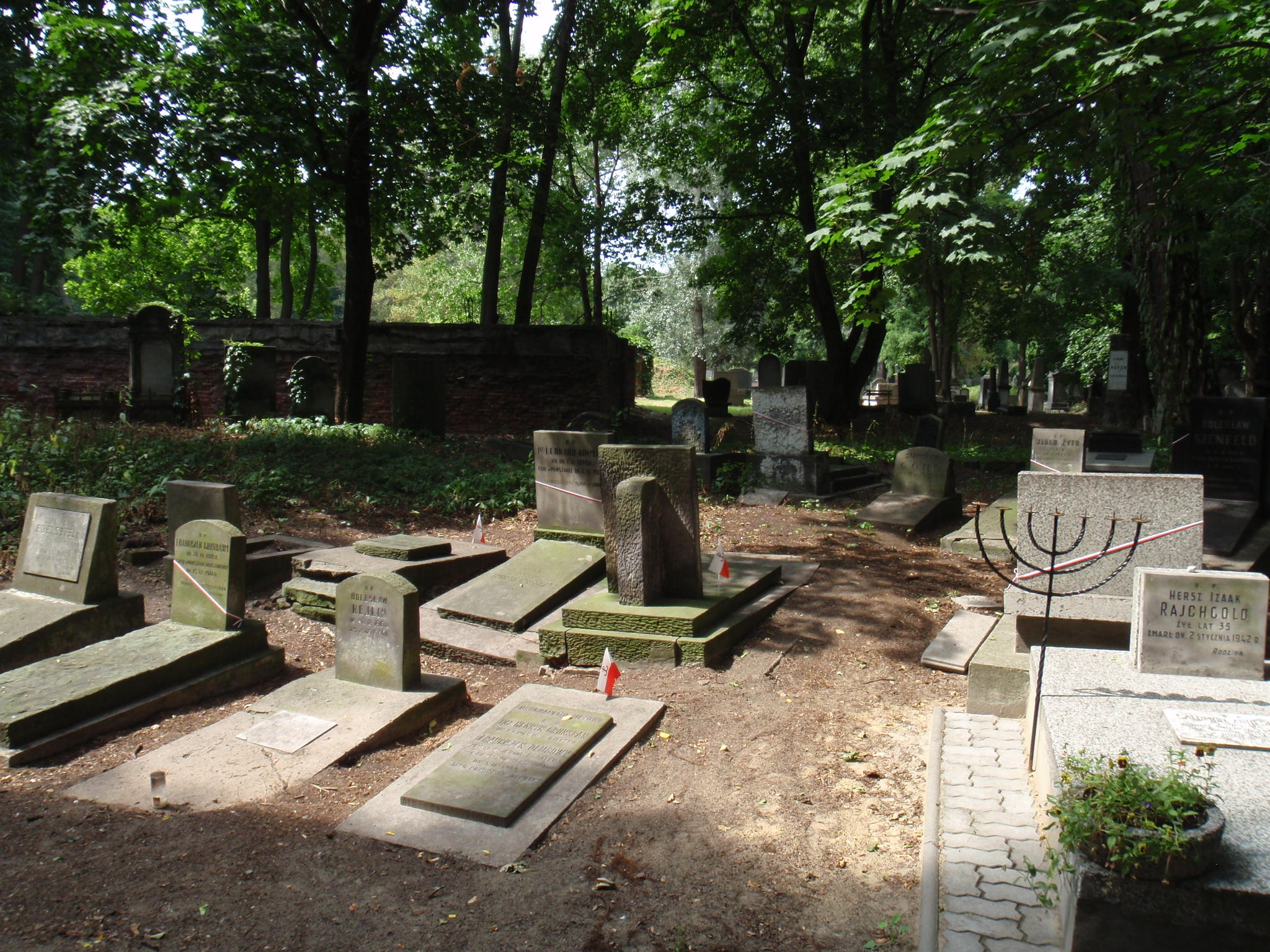 Grave of Jewish Warsaw Uprising (1944) fighters